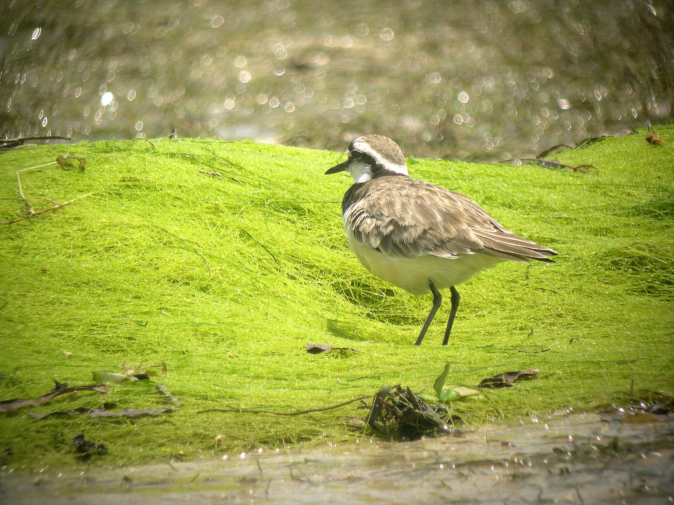 Madagaskar Plover (Charadrius thoracicus)